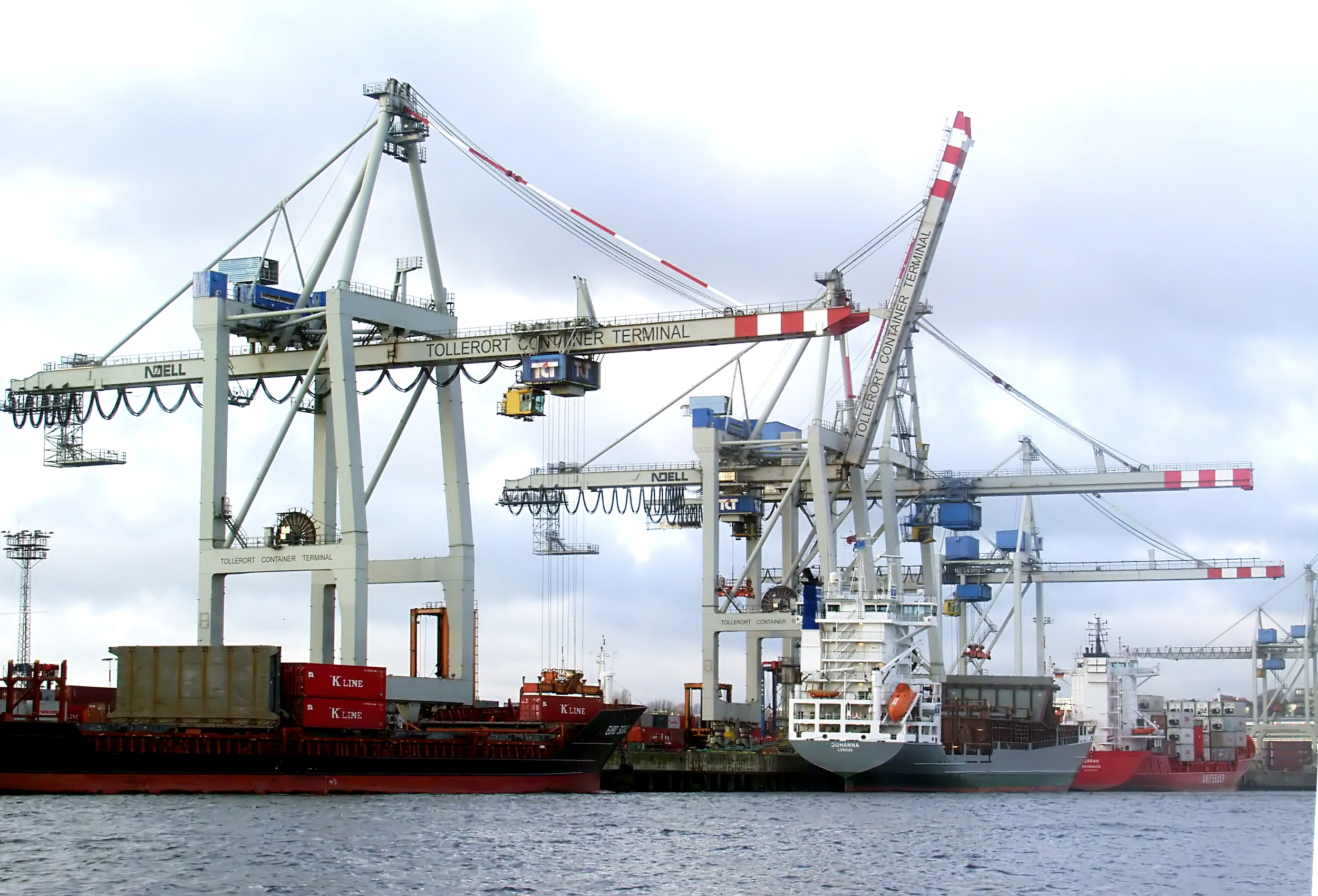 Containerterminal Tollerort at Harbour Hamburg